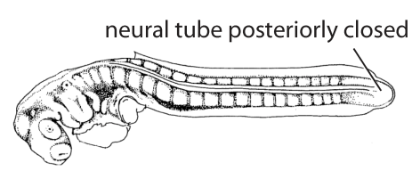 Standard Event System character depiction